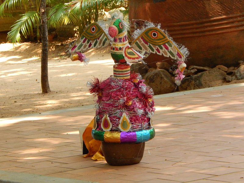 This is a equipment used in folk dance in tamilnadu, India